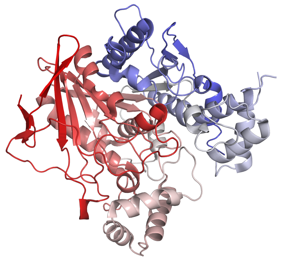 Ribbon diagram of human butyrylcholinesterase (pseudocholinesterase).Created using PyMOL ( and GIMP.